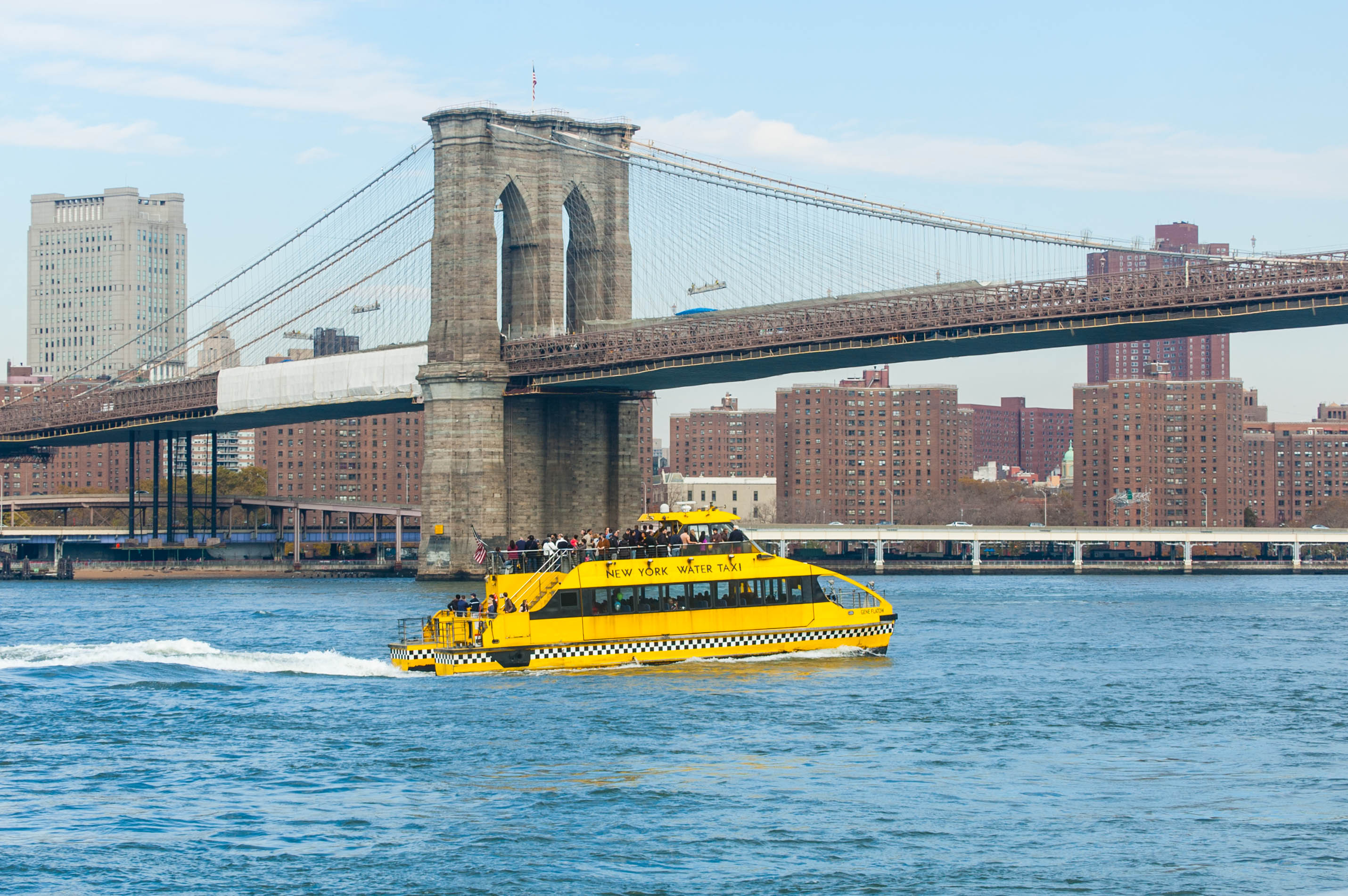 A New York Water Taxi approaching the Brooklyn Bridge in the East River, lower Manhattan in background